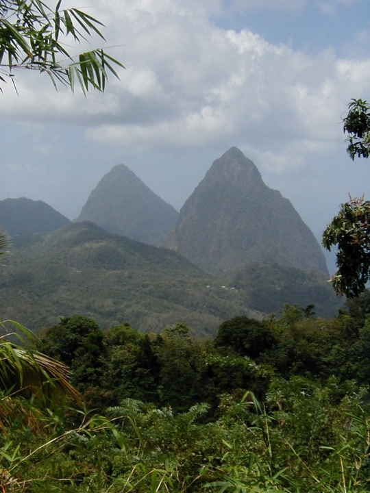 Panorama View from the top of Gros Piton, looking north. Gives an amazing view of the Two Pitons, St. Lucia. from . Photographer allow to use it under GFDL Zerokarma, the copyright holder of this work, hereby publishes it under the following license: Attribution: Zerokarma